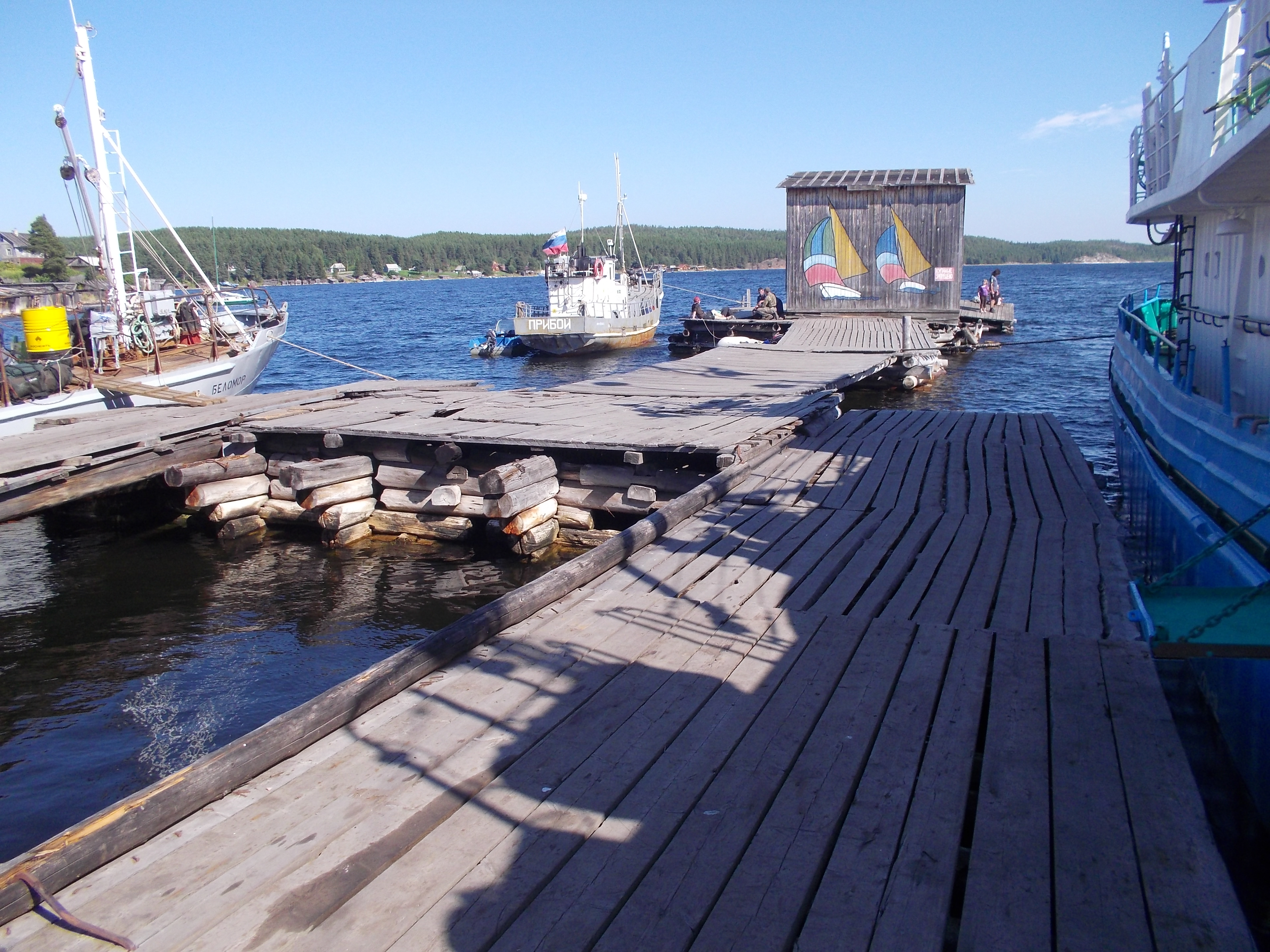 Chupa sea port